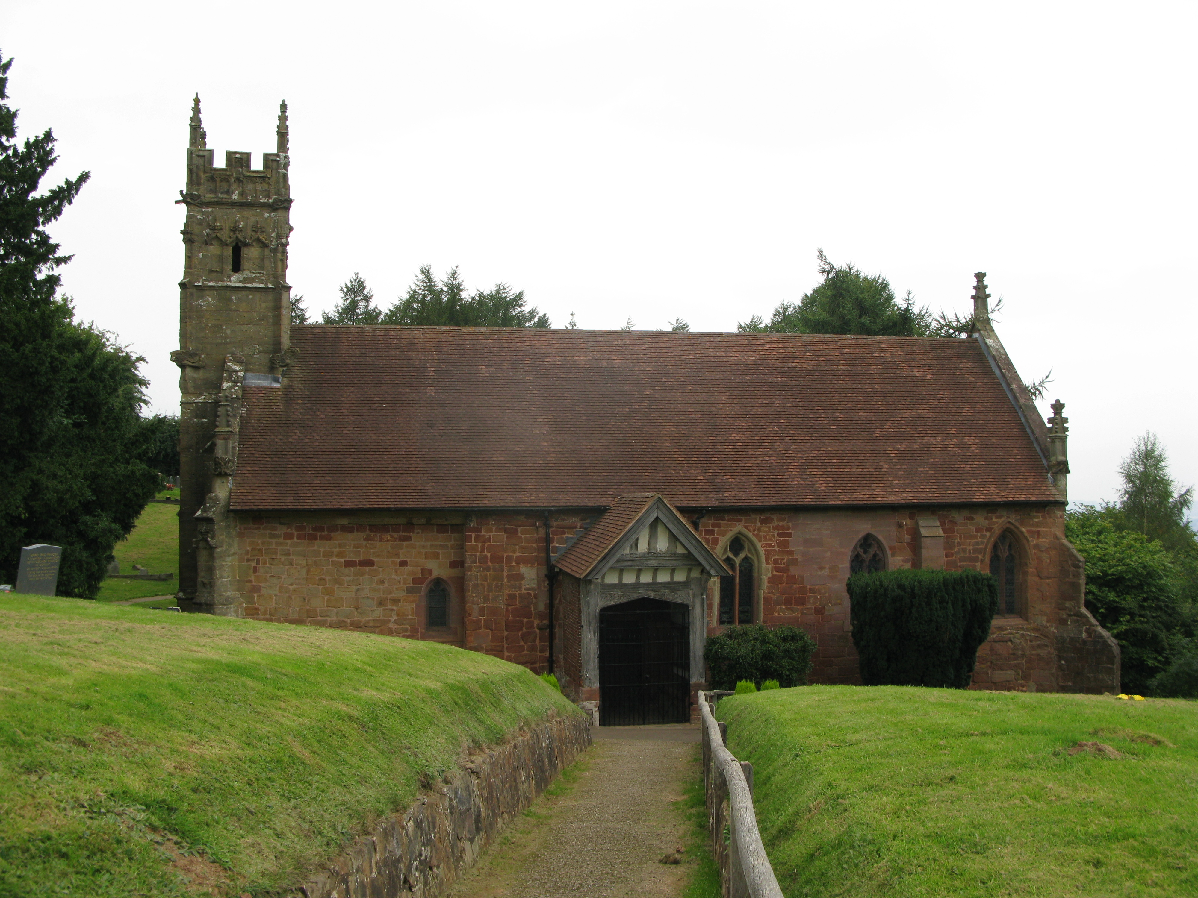 Grade I